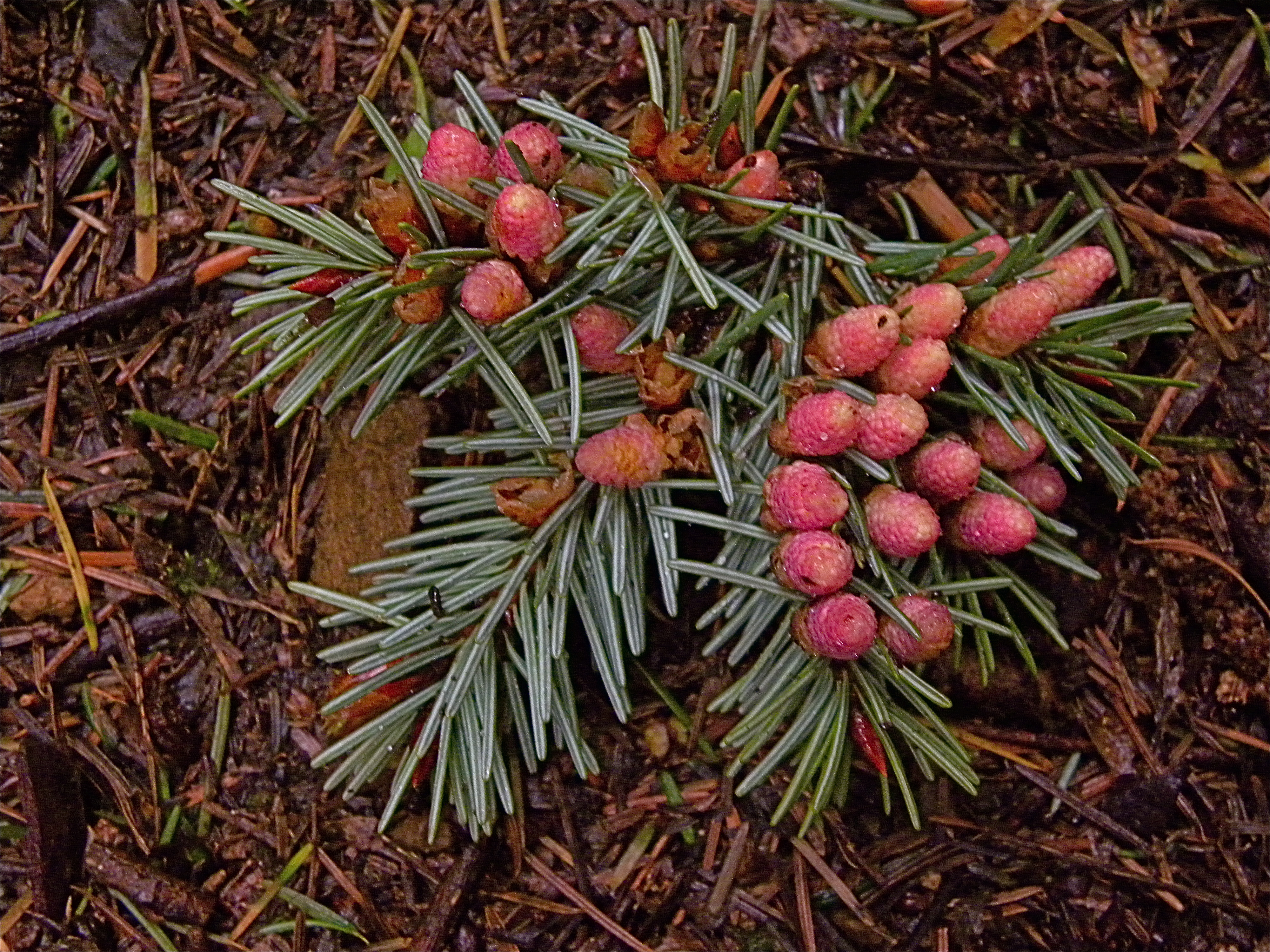 Pseudotsuga menziesii subsp. menziesii shoot with pollen cones. Squak Mountain, Washington, USA.